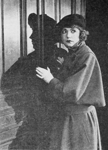 Still from the American film Suspense (1919) with Mollie King, on page 794 of the February 8, 1919 Moving Picture World.